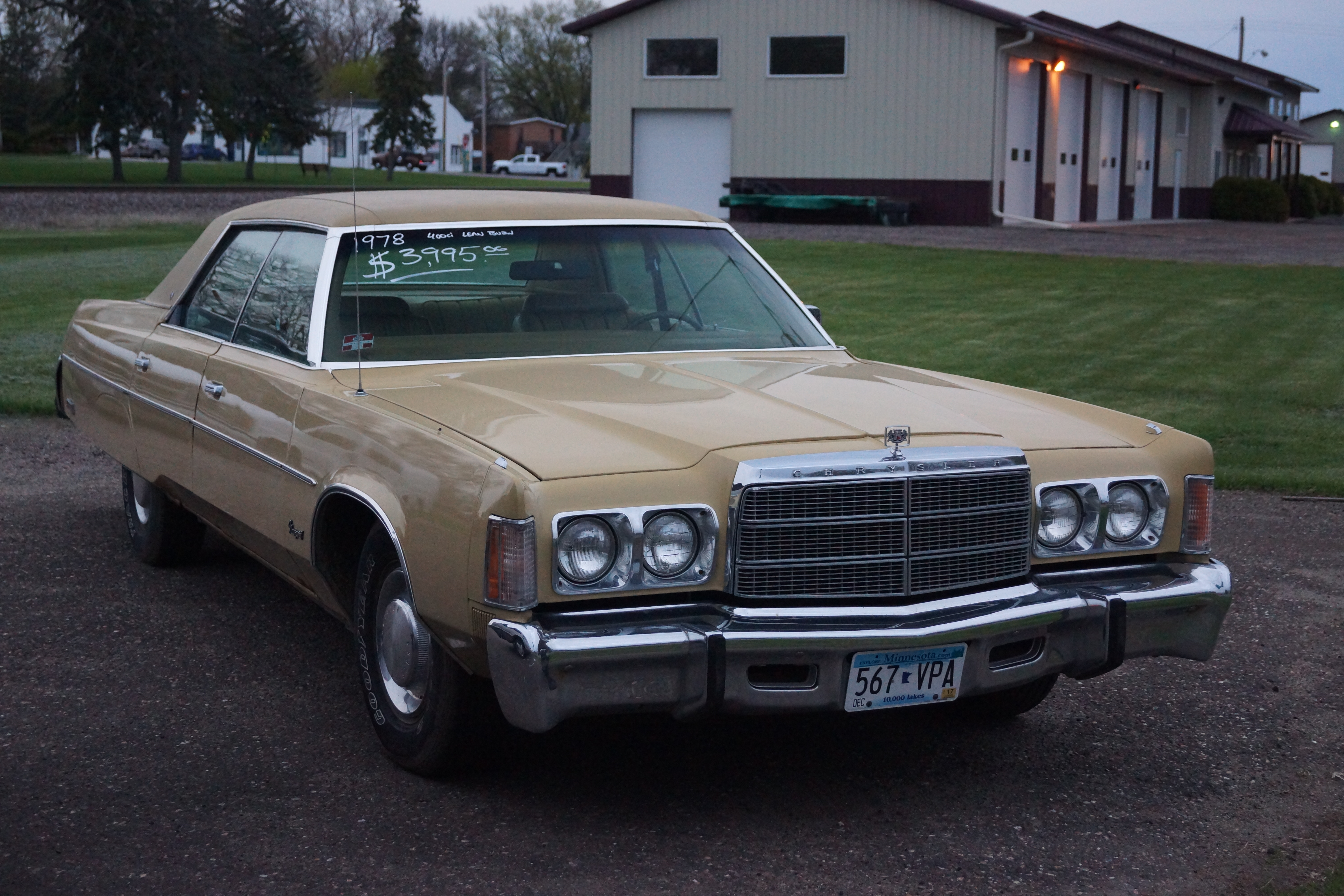 Click here for more car pictures at my Flickr site. Or here for my Car Crazy Tumblr site. Or on Twitter @DVS1mn.